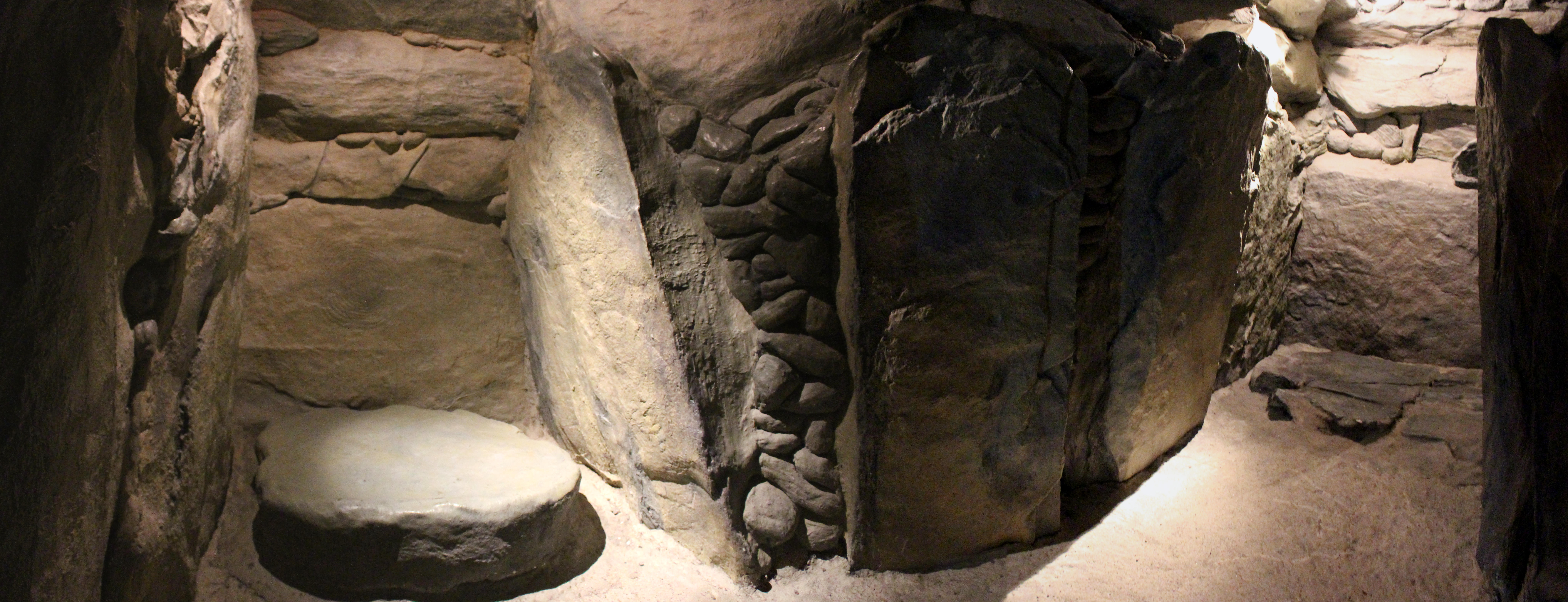 County Meath, Newgrange. Wikidata has entry Q339503 with data related to this item.